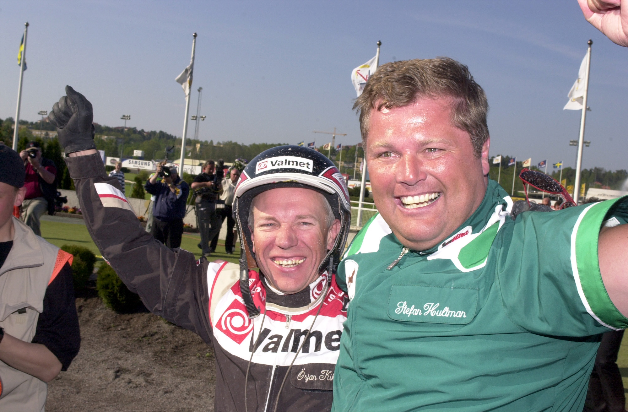 Örjan Kihlström (driver) and Stefan Hultman (trainer) after From Above's victory in Elitloppet 2003-05-25 at Solvalla.